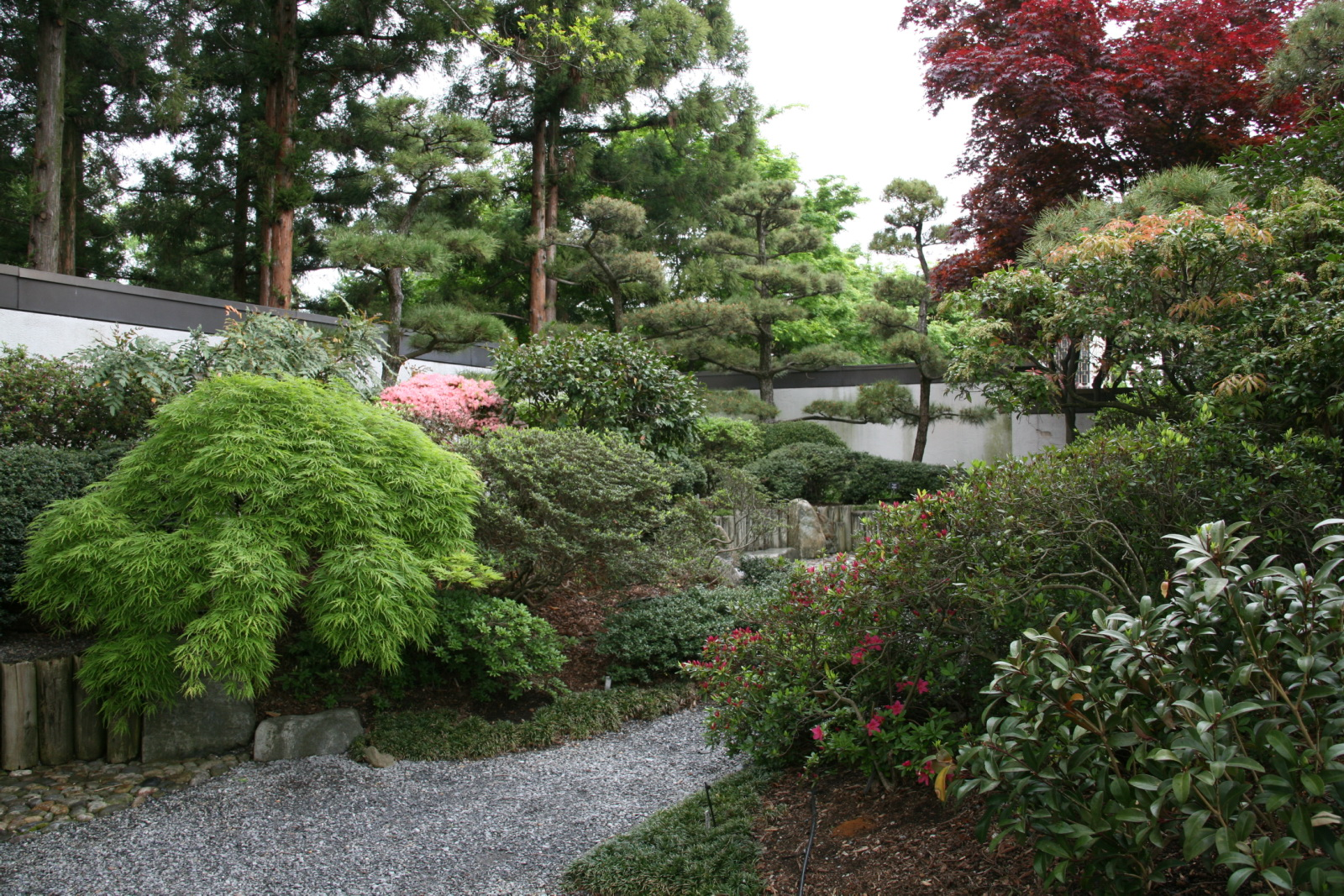 The upper courtyard, with its water feature and bonsai display welcomes you to the center of the museum. As you leave the International Pavilion and Special Exhibits Wing, the pagoda-like entrance to the Chinese Pavilion and the nearby serpentine wall give you a sense of the ancient roots of penjing and the mysticism of Asian art forms. The Japanese Stroll Garden prepares you for the formality and spirituality found in the Japanese Pavilion that is home to the museum’s first and oldest pieces. The Yamaguchi Garden, featuring a variety of plants native to North America, echoes the less formal styling and diversity of inspirations characteristic of American masters who contributed pieces in the North American Pavilion.